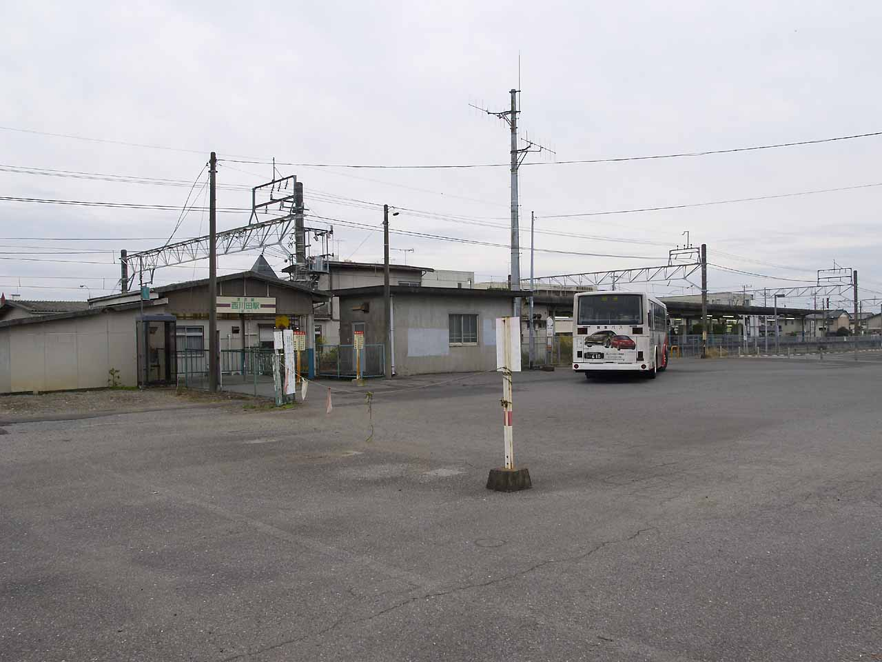 West entrance of Tobu Nishi-kawada station.